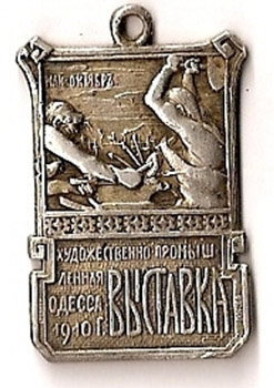 Memorial silver badge, dedicated to Odessa Exposition of 1910